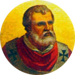 Portait of Pope Agapetus II in the Basilica of Saint Paul Outside the Walls, Rome